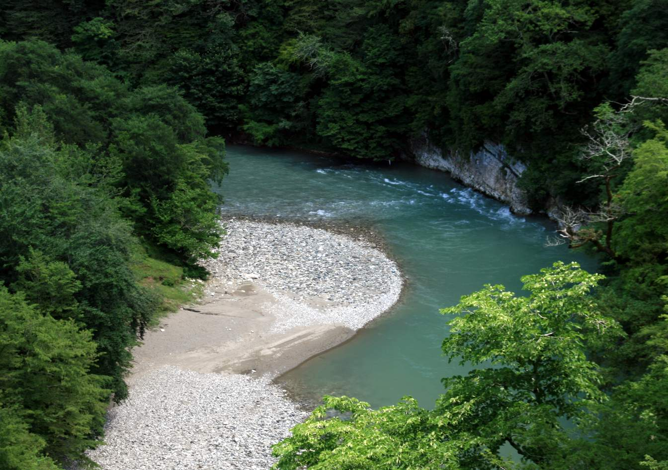 The Tekhura river at Nokalakevi, Georgia